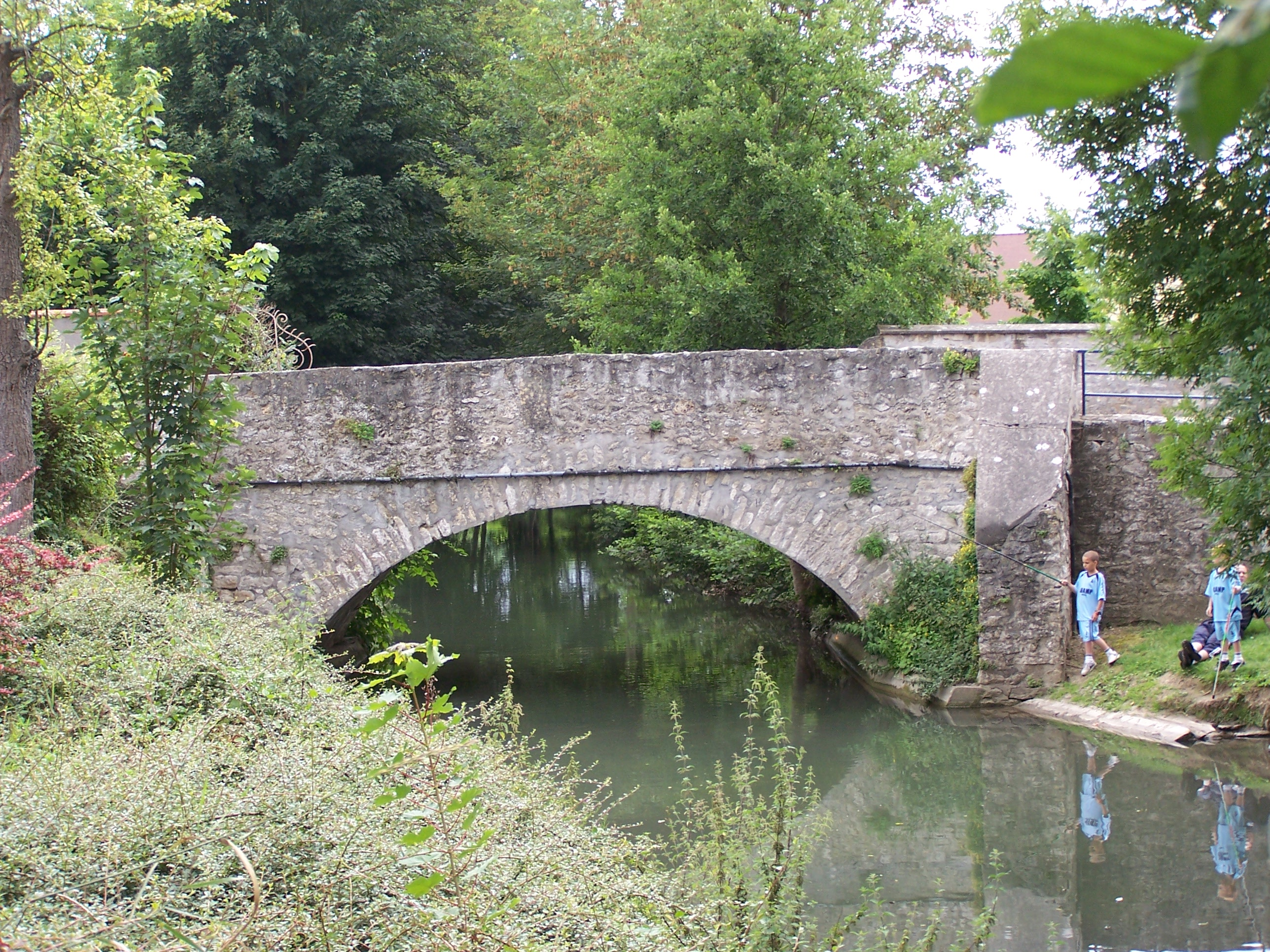 Bridge of the révolution in Auffreville-Brasseuil (Yvelines, France)